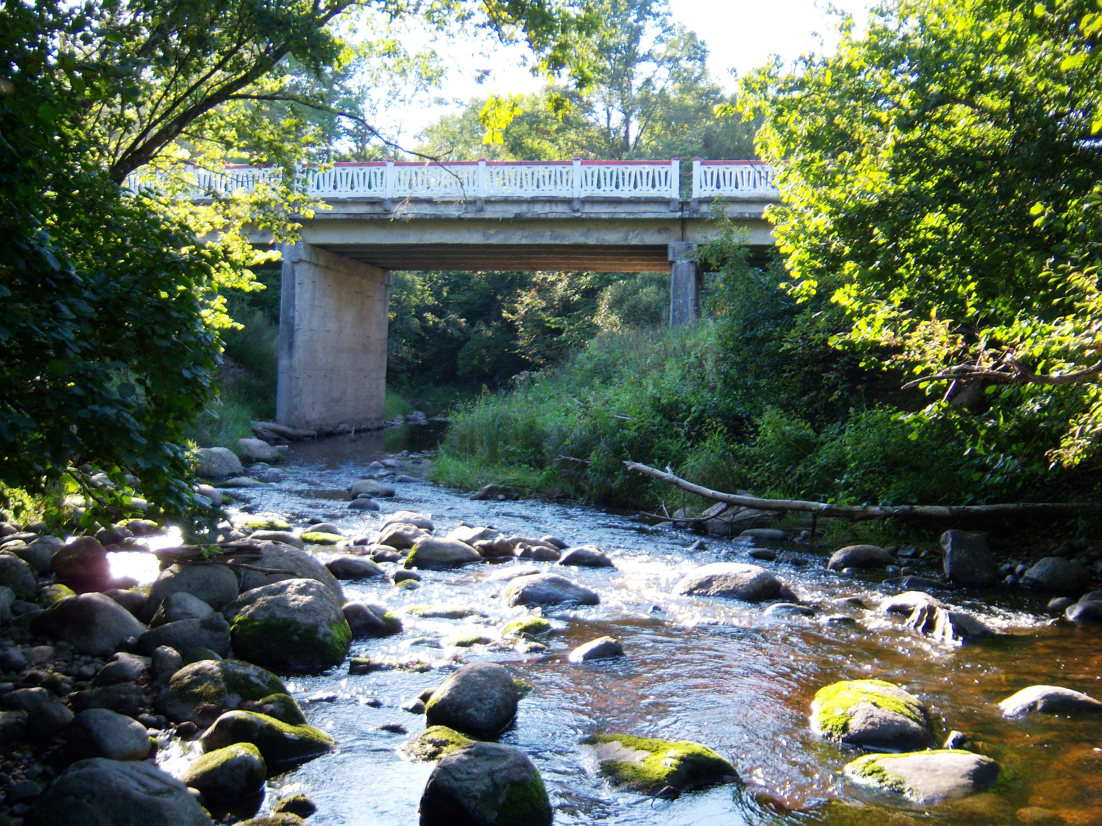 Žvelsa River (under the road Vėžaičiai-Kartena), Klaipėda District, Lithuania